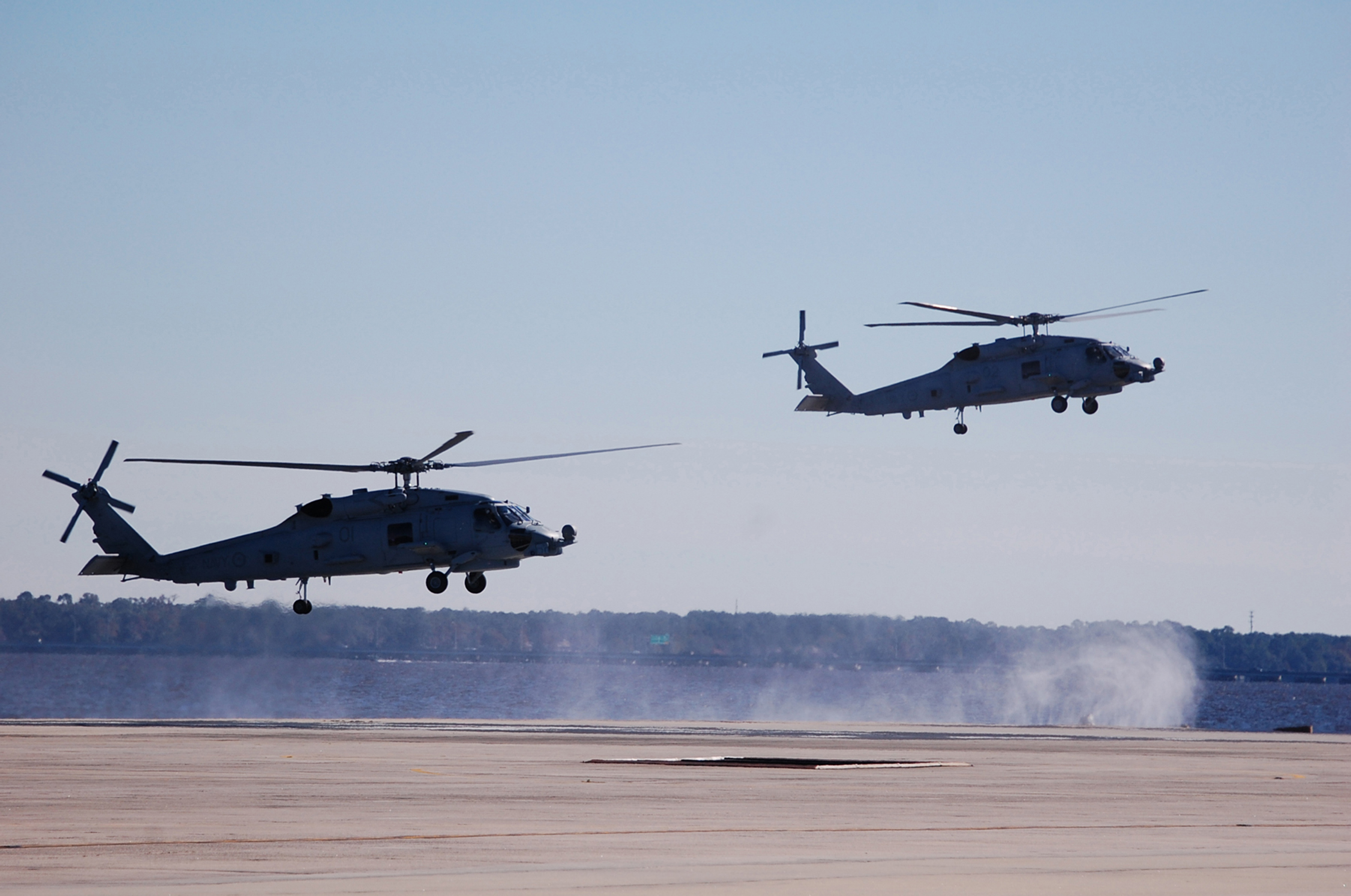 JACKSONVILLE, Fla. (Dec. 12, 2013) The first new MH-60R Sea Hawk helicopters arrive at Naval Air Station (NAS) Jacksonville to be accepted by Royal Australian Navy (RAN) 725 Squadron. The RAN is purchasing 24 of the new Romeo helicopters through the Foreign Military Sales Program.